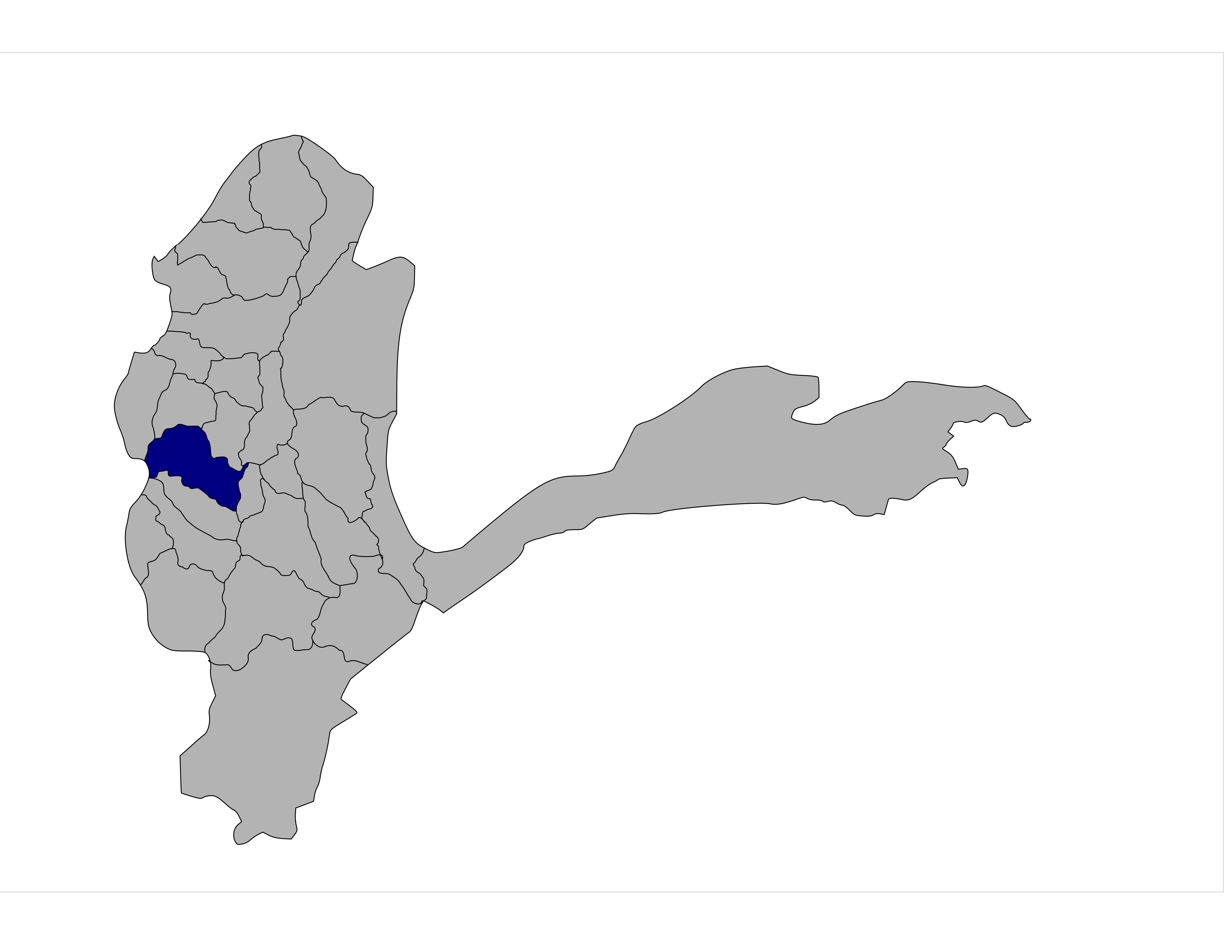 Shows the boundaries of Argo District, Badakhshan Province, Afghanistan.